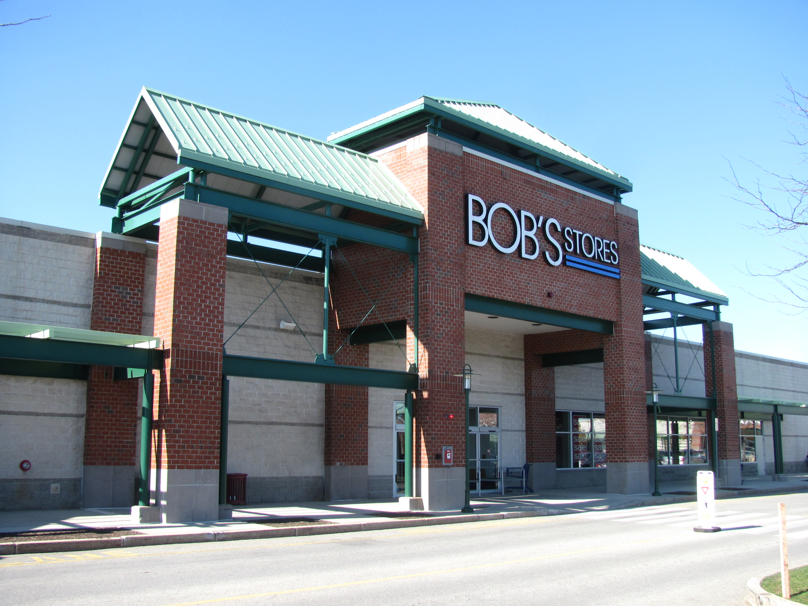 Bob's Stores, Shoppers World, Framingham Massachusetts